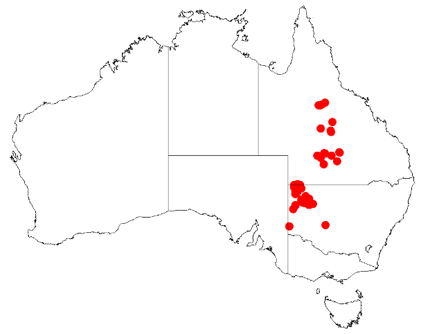 Acacia cana Occurrence data from Australasia Virtual Herbarium downloaded from on 8 December 2018